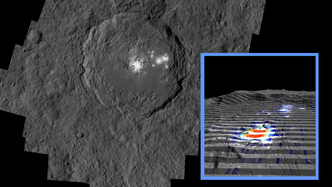 PIA20694: Occator Crater and Carbonates The center of Ceres' mysterious Occator Crater is the brightest area on the dwarf planet. The inset perspective view is overlaid with data concerning the composition of this feature: Red signifies a high abundance of carbonates, while gray indicates a low carbonate abundance. Dawn's visible and infrared mapping spectrometer (VIR) was used to examine the composition of the bright material in the center of Occator. Using VIR data, researchers found that the dominant constituent of this bright area is sodium carbonate, a kind of salt found on Earth in hydrothermal environments. Scientists determined that Occator represents the highest concentration of carbonate minerals ever seen outside Earth. Dawn's mission is managed by JPL for NASA's Science Mission Directorate in Washington. Dawn is a project of the directorate's Discovery Program, managed by NASA's Marshall Space Flight Center in Huntsville, Alabama. UCLA is responsible for overall Dawn mission science. Orbital ATK, Inc., in Dulles, Virginia, designed and built the spacecraft. The German Aerospace Center, the Max Planck Institute for Solar System Research, the Italian Space Agency and the Italian National Astrophysical Institute are international partners on the mission team. For a complete list of acknowledgments, For more information about the Dawn mission, visit